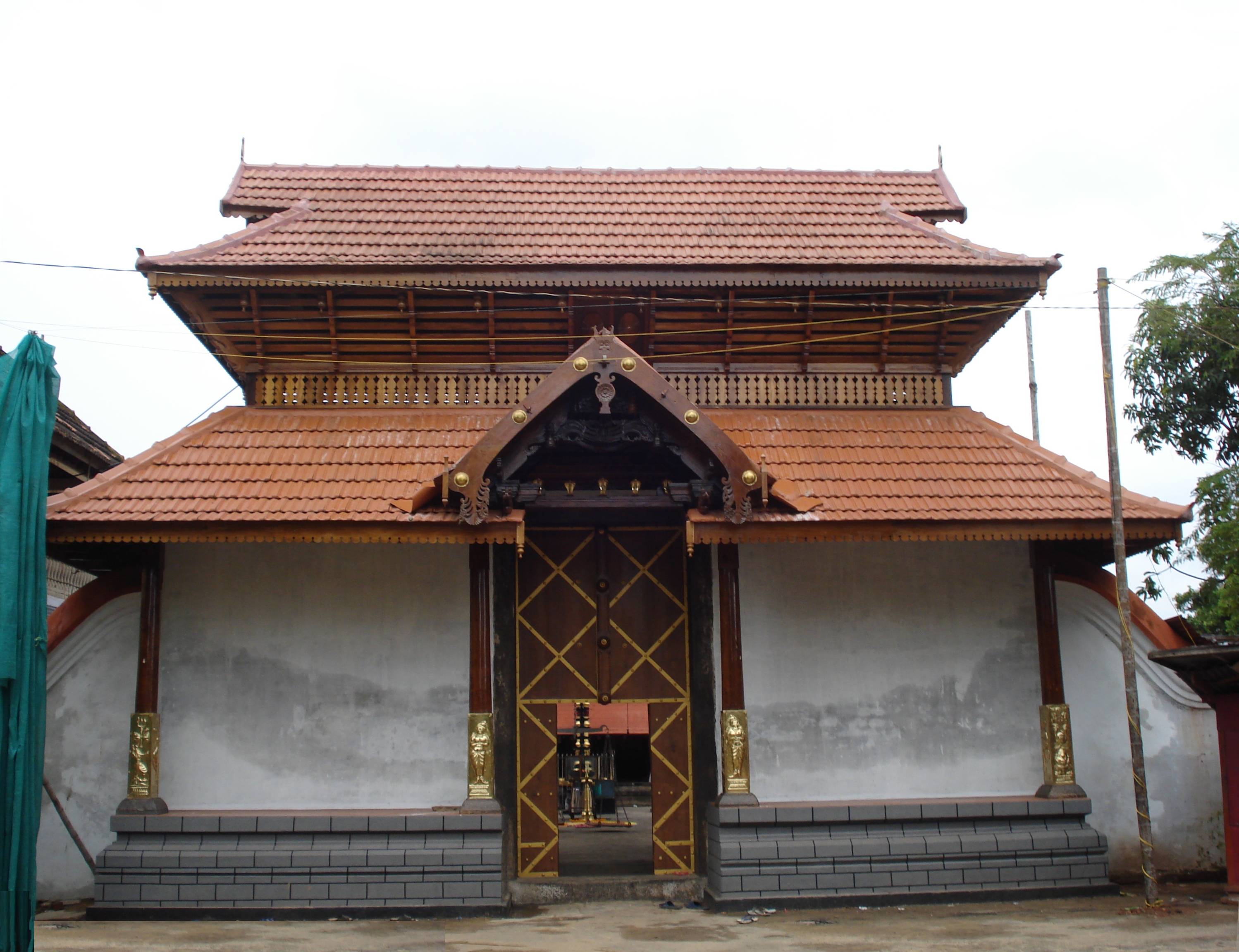 Ernakulathappan Temple